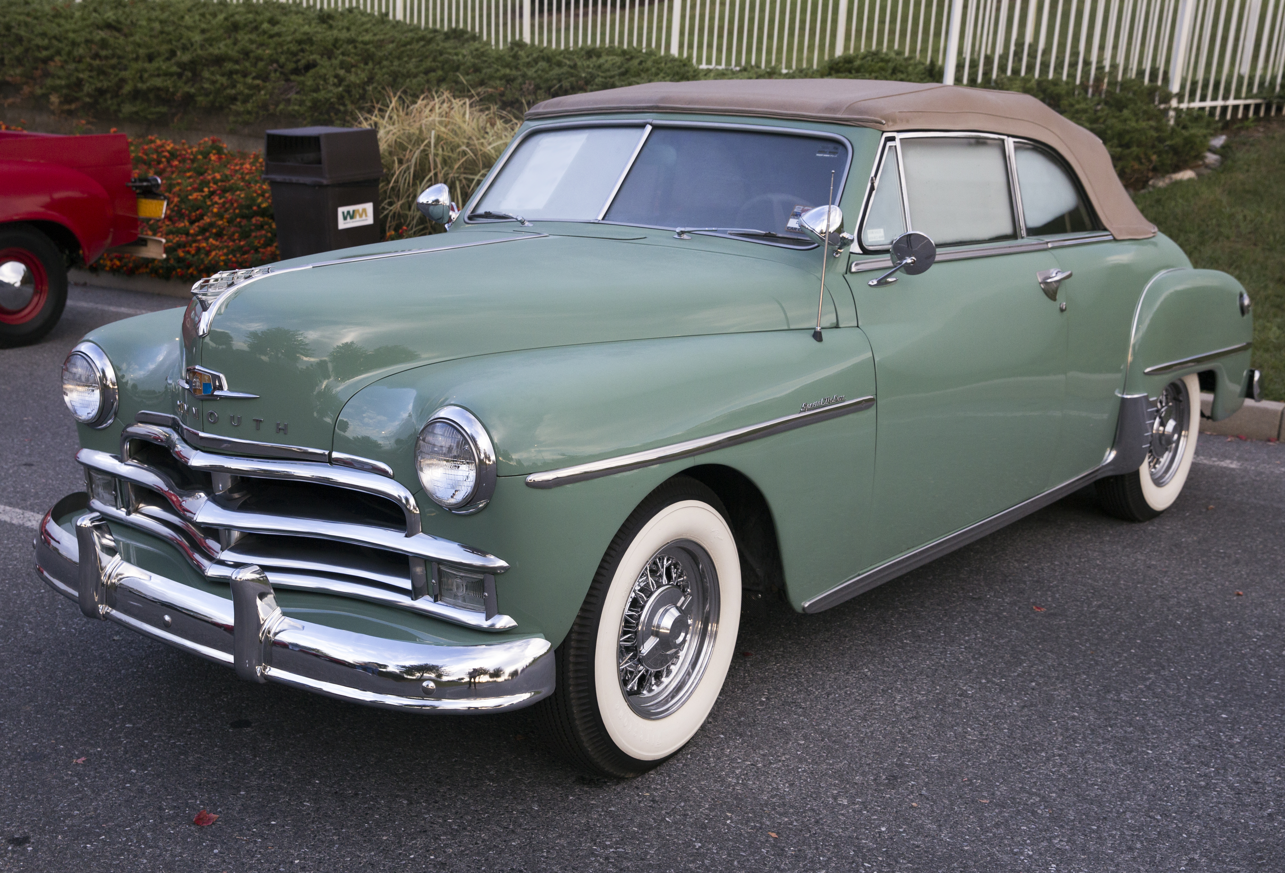 A somewhat overdressed 1950 Plymouth Special Deluxe convertible, offered for sale at Hershey 2019.